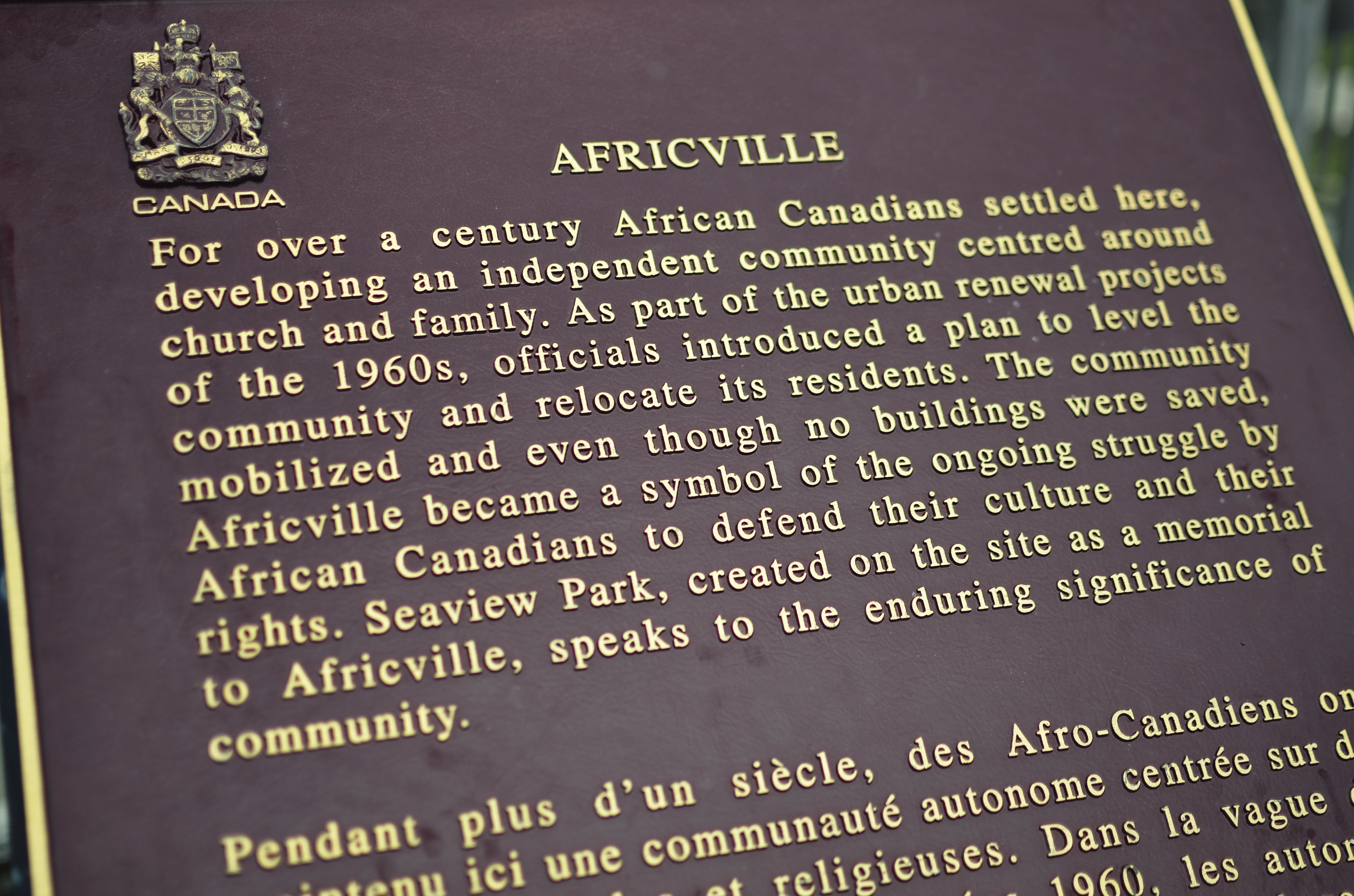 Text on the site of Africville, near the Seaview Baptist Church in Halifax, NS, Canada. Text reads "For over a century African Canadians settled here, developing an independent community centred around church and family. As part of the urban renewal projects of the 1960s, officials introduced a plan to level the community and relocate its residents. The community mobilized and even though no buildings were saved, Africville became a smybol of the ongoing struggle by African Canadians to defend their culture and their rights. Seaview Park, created on the site as a memorial to Africville, speaks to the enduring significance of community."